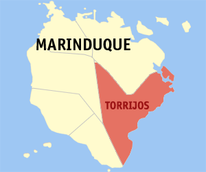 Map of Marinduque showing the location of Torrijos